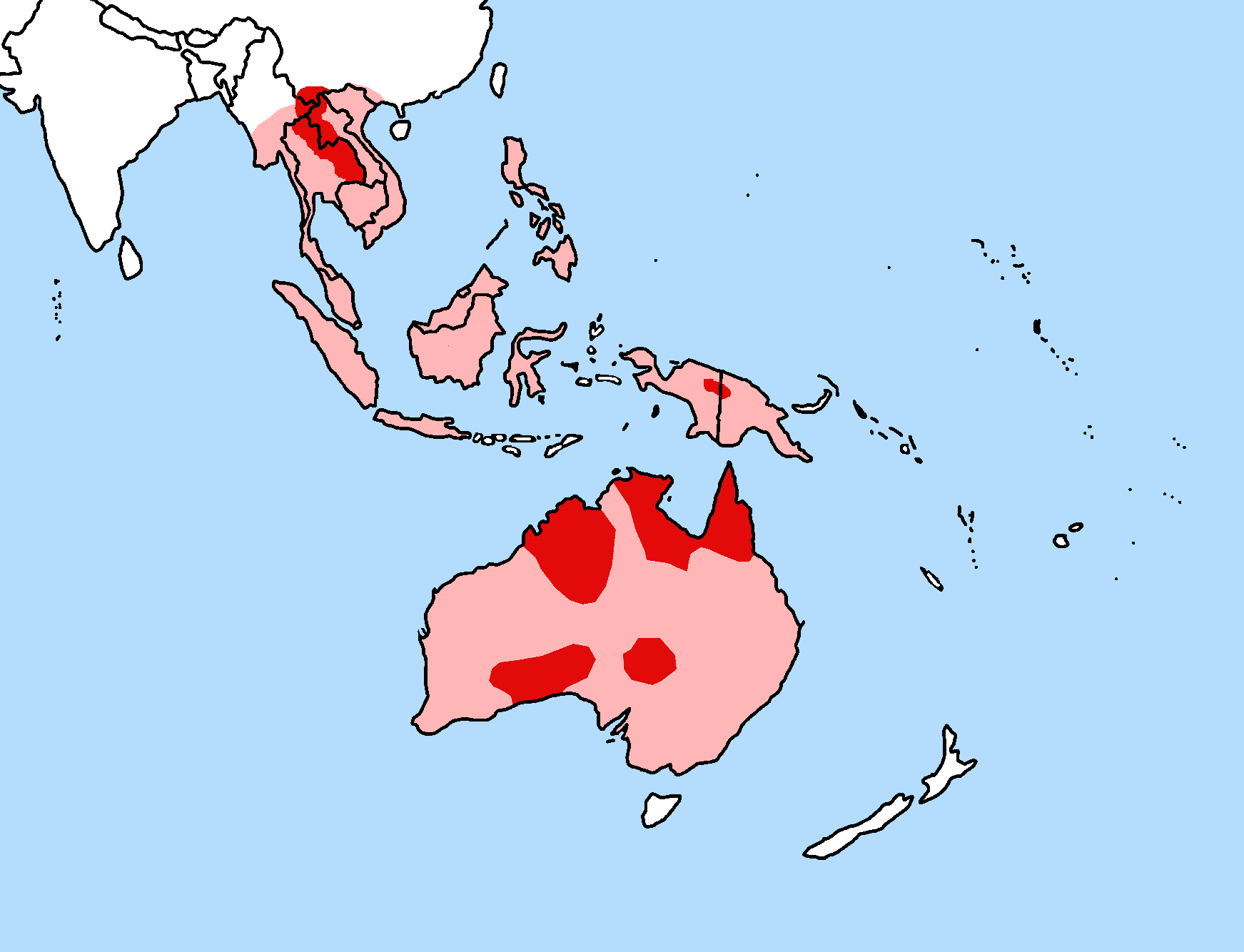 Geographic range of the Dingo (Canis lupus dingo)